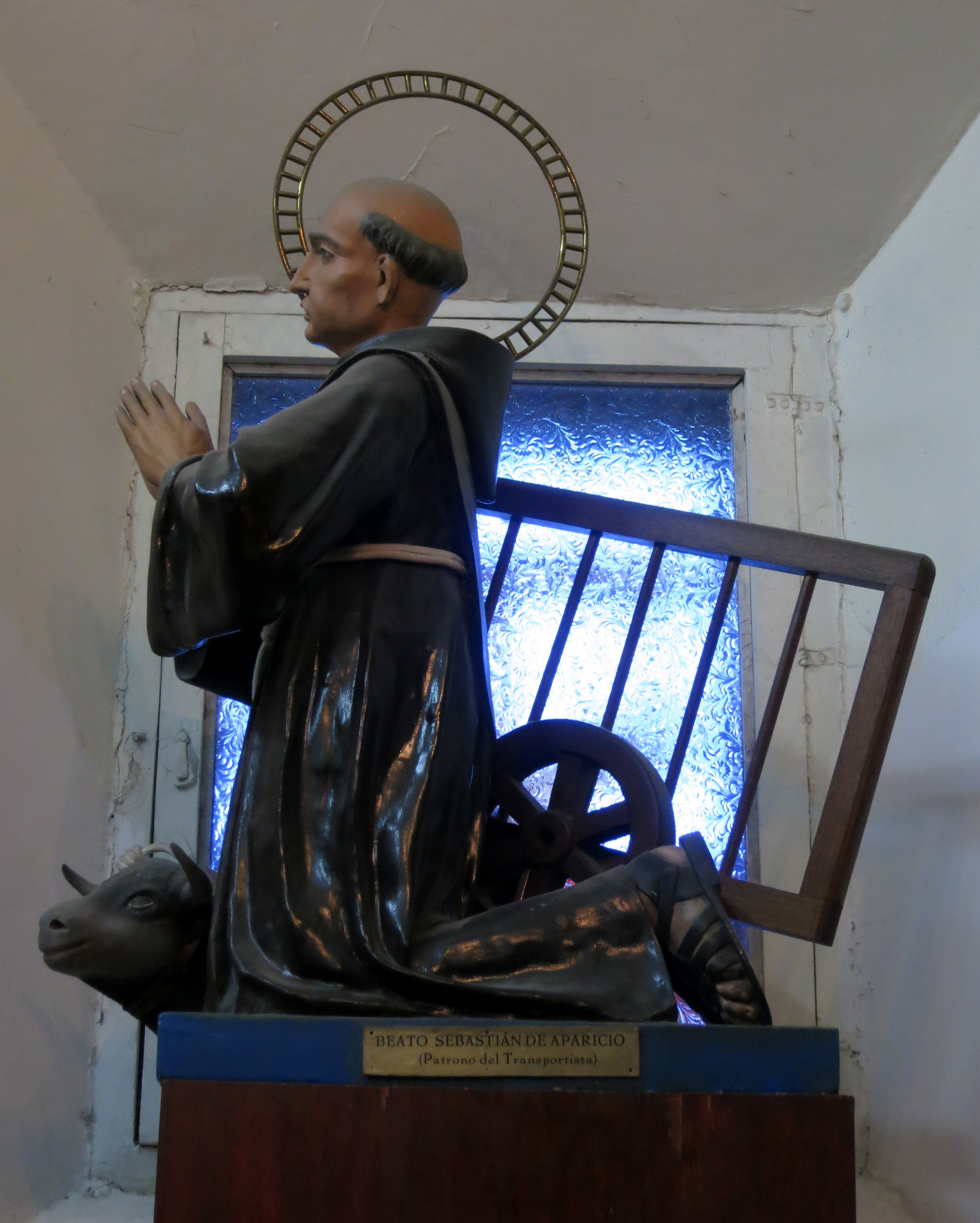 Basílica de Nuestra Señora de Zapopan (Jalisco, Mexico) - statue, Bl. Sebastian de Aparicio